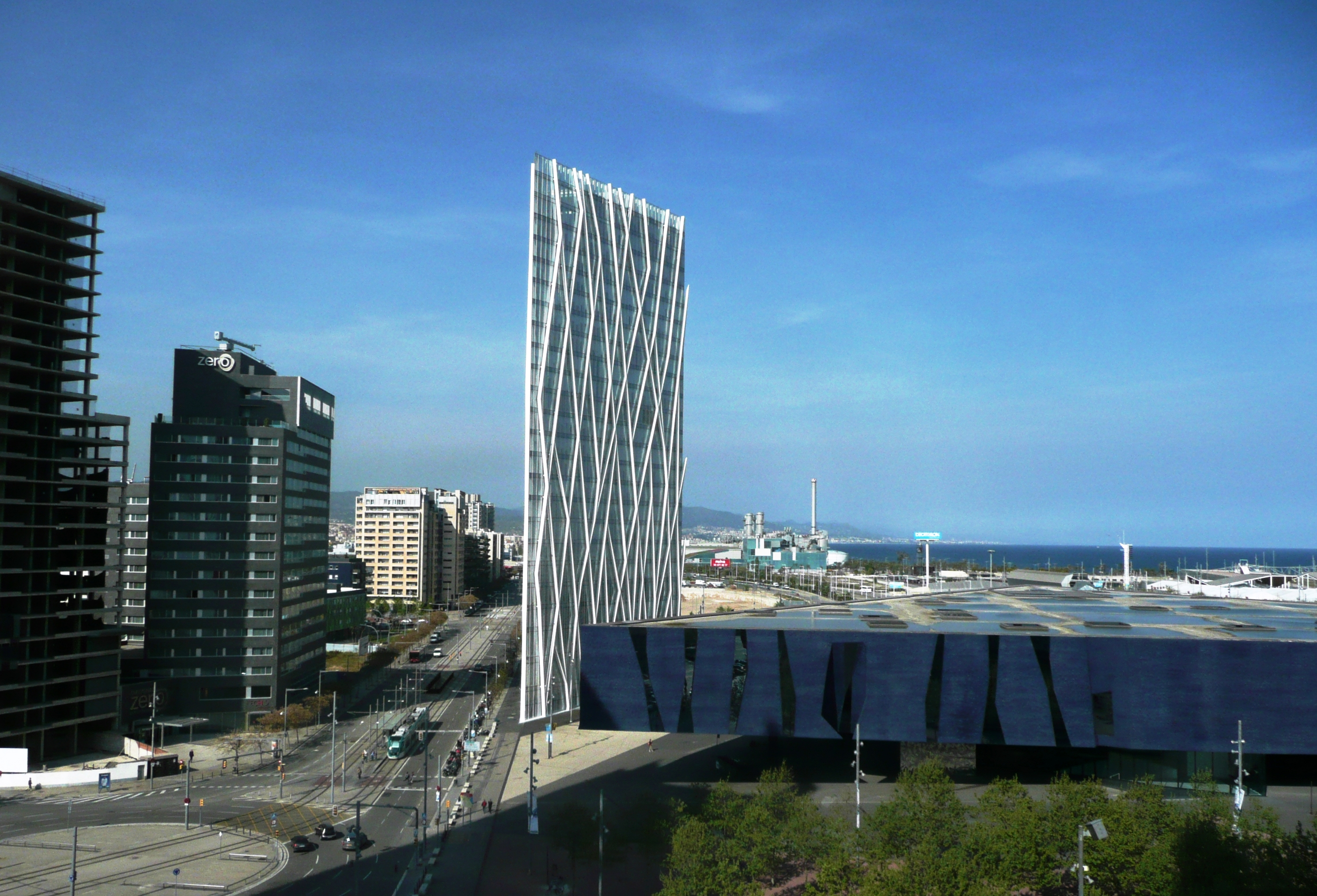 The building Torre Diagonal ZeroZero in Barcelona (Diagonal Mar), headquarter of Telefónica in Catalonia, designed by Enric Massip-Bosch.